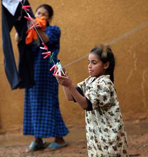 Original caption states "Near the Iraqi/Jordanian border, key leaders from Coalition Forces, the Iraqi Government and the United Nations met to figure out the fate of a growing number of Iraqis of Palestinian heritage who fled their homes in Baghdad in recent weeks, seeking asylum from the violence there. More than 150 men, women and children tried to cross into Jordan to escape violence and persecution in their home of Baghdad, but were thwarted by Jordanian border officials who refused their passage across, according to Shihab Ahmed Taha, a refugee at the camp with his wife and three children. With help from the Iraqi Red Crescent, a group similar to the American Red Cross, a camp was set up for the refugees, complete with tents, food, water and medical supplies. Here, two young Iraqi girls remove clothes from a clothesline at the refugee camp April 17, 2006, near the Iraqi-Jordanian border." Note that, since they did not cross an international border, they are internally displaced persons and not legally refugees.